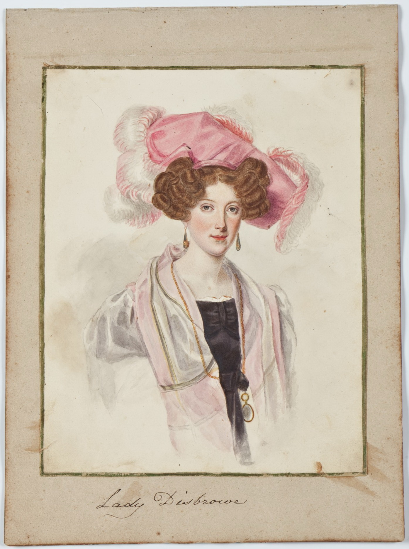 The Middleton Watercolor Album consists of a collection of 45 watercolor portraits bound in leather covers with neo-gothic embossing and a gilt bronze clasp in the same style. The album relates to the Middleton family of South Carolina, from which it descended until Hillwood purchased it in 2004. Williams Middleton—who was secretary to his father, Henry Middleton, the American minister to St. Petersburg from 1820 to 1830—assembled this album. The artist of many of the watercolors, most of which are unsigned, is likely Middleton's sister, Maria Henrietta, who studied painting during her years in St. Petersburg with her governess, Madame Mathes, who also painted miniatures. Two watercolors, including this portrait of the Countess Bobrinsky, are signed by the well-known Russian watercolorist Petr Sokolov. The portraits are of Russians and people in the foreign community who were close associates of the Middleton family. Their portraits provide an extraordinary commentary on the fashion and hairstyles of the 1820s.